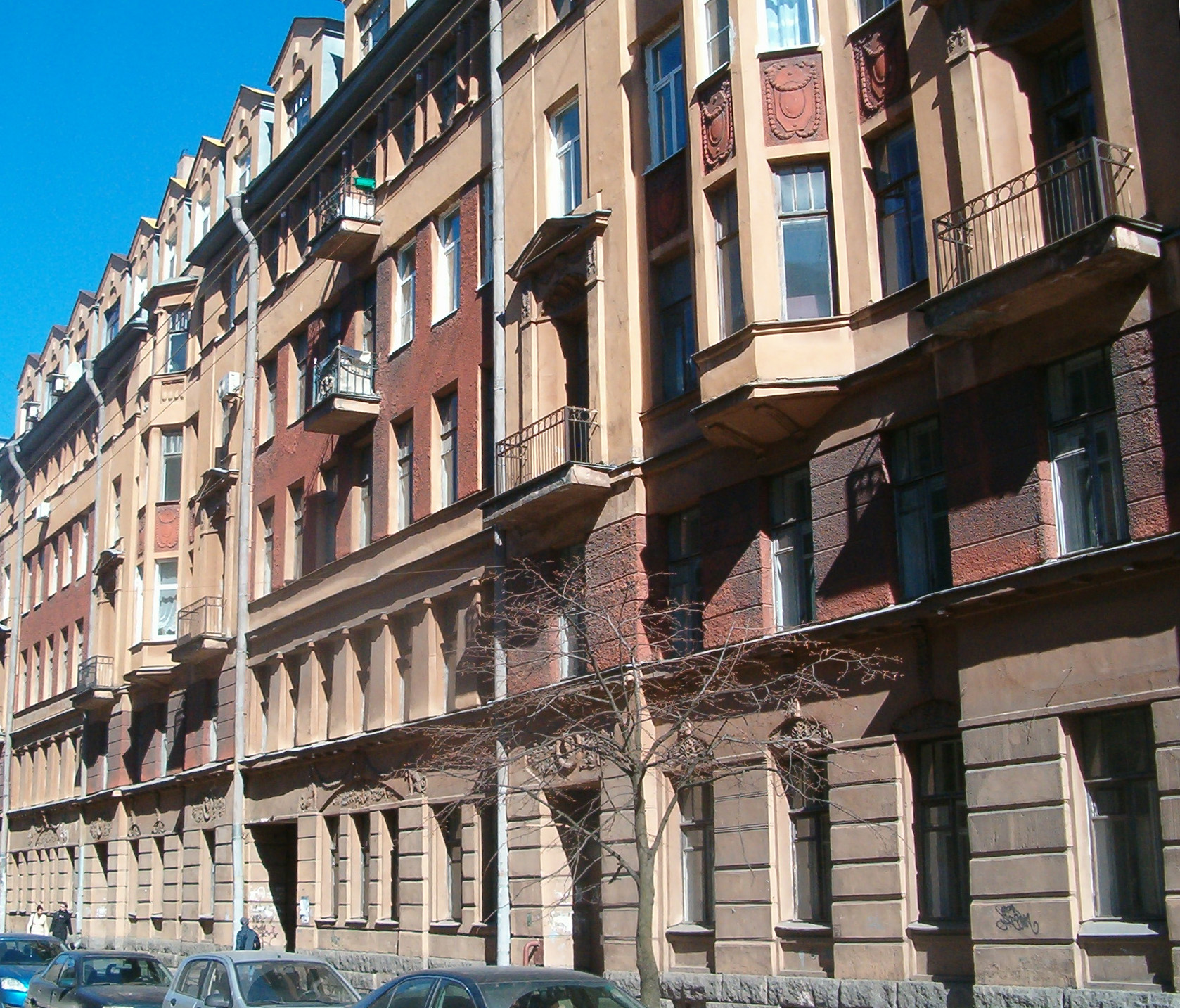 19-21, Gatchinskaya street (Saint-Petersburg, Russia)